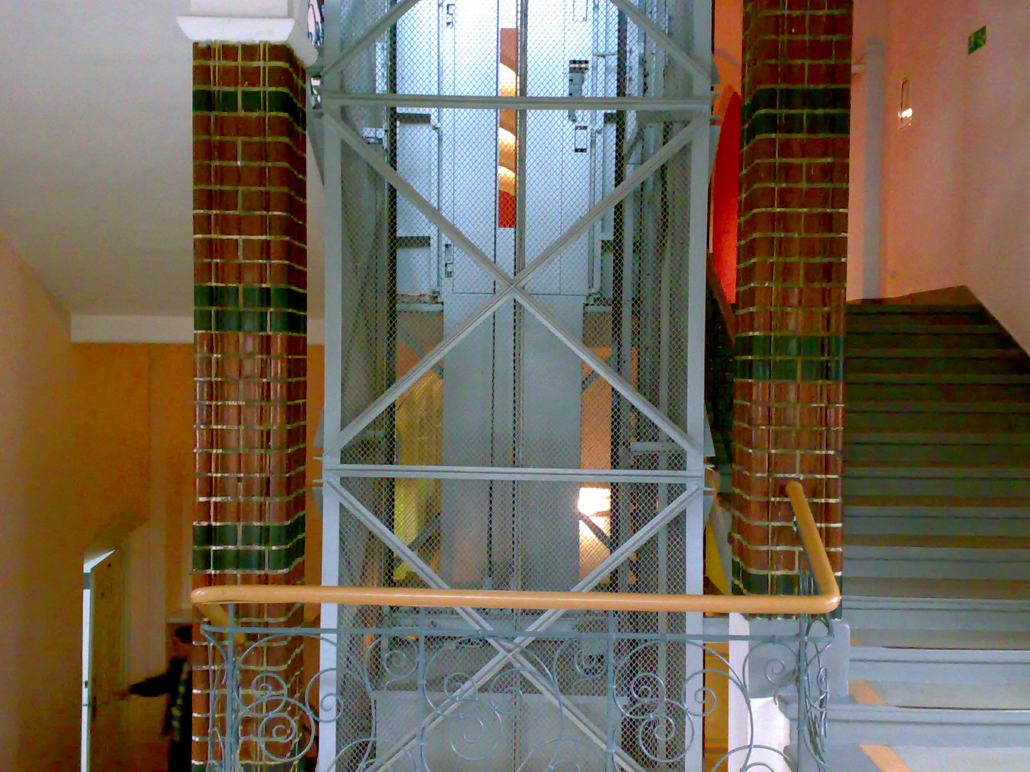 Old Lift, Poznan, Politechnika.